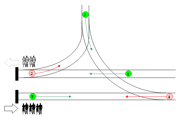 T-shaped tramway turn.